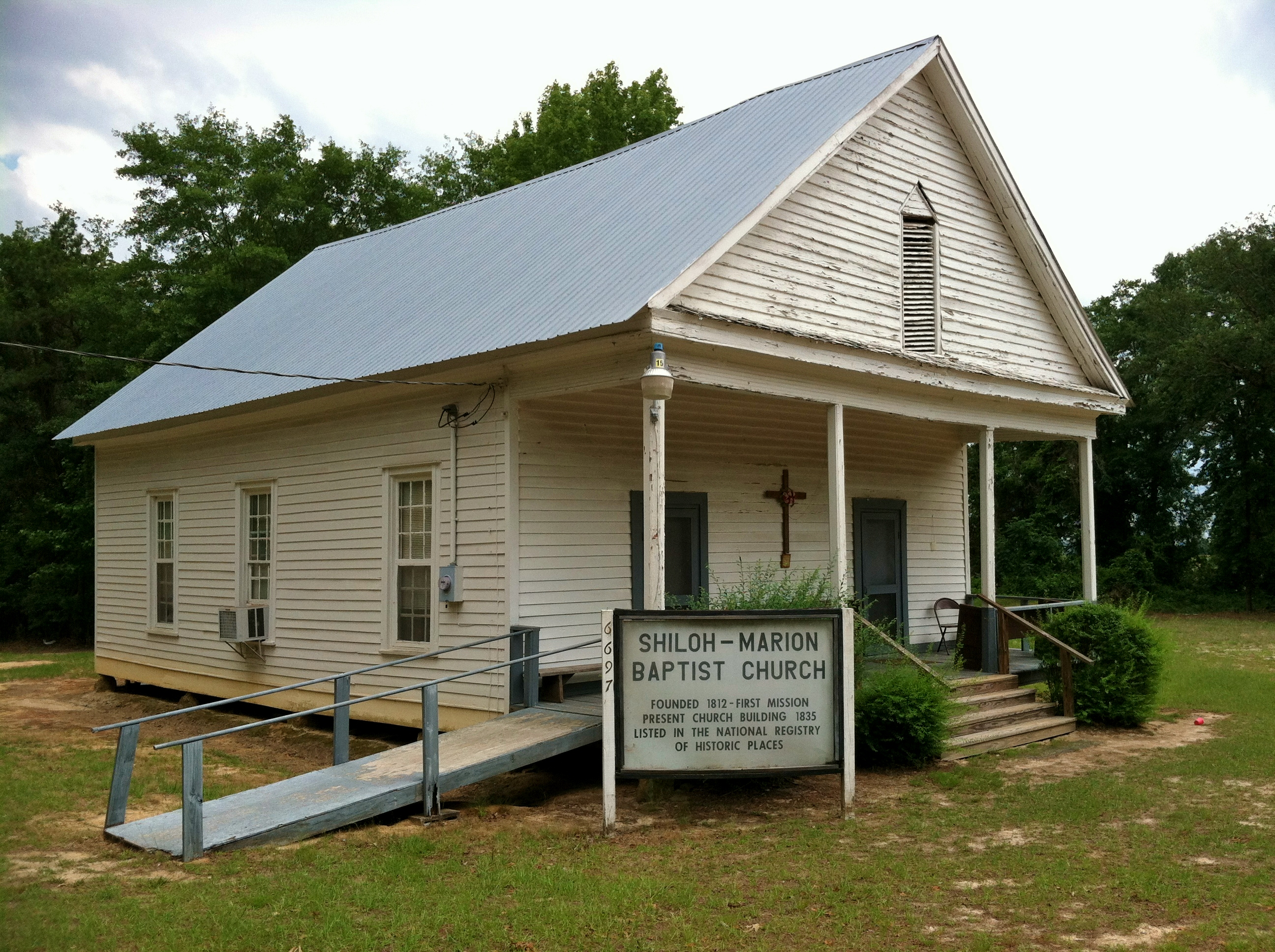 This is a photo of Shiloh-Marion Baptist Church and Cemetery in Buena Vista, GA